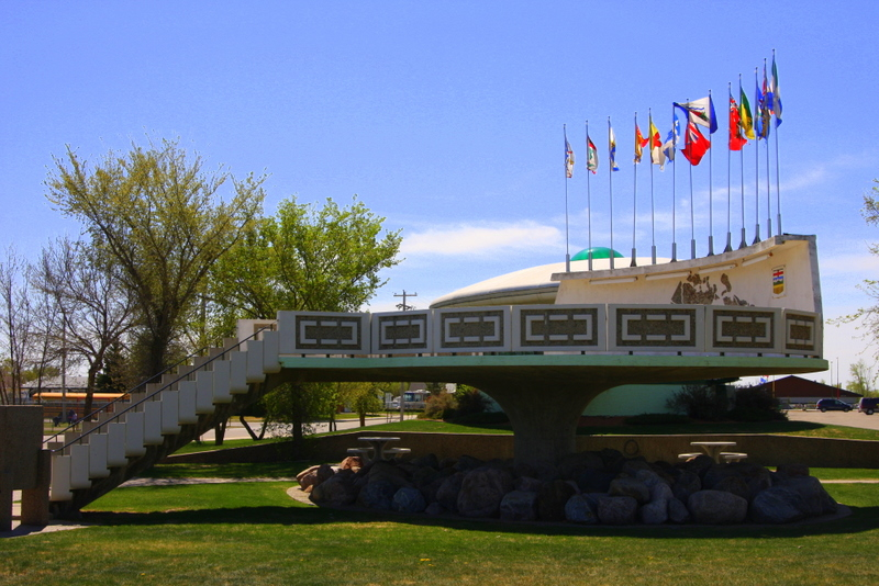 Taken at St. Paul Alberta, May 29 2009.